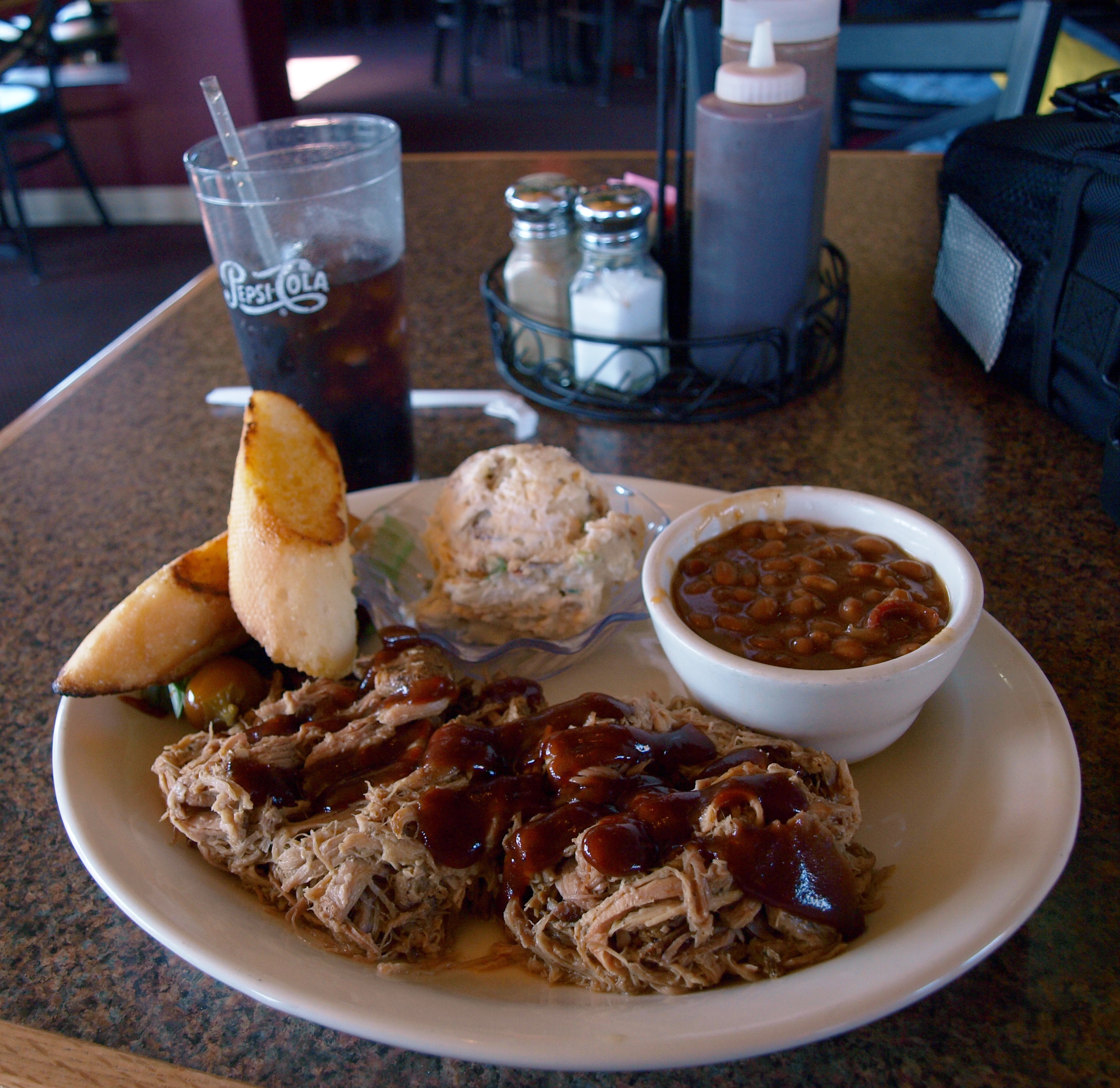 Pulled pork, potato salad and baked beans in Sedona, Arizona, USA.